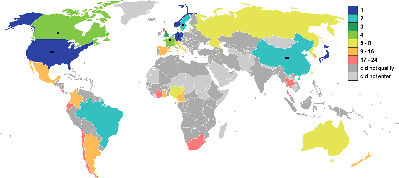 world cup wommen best result and hosts